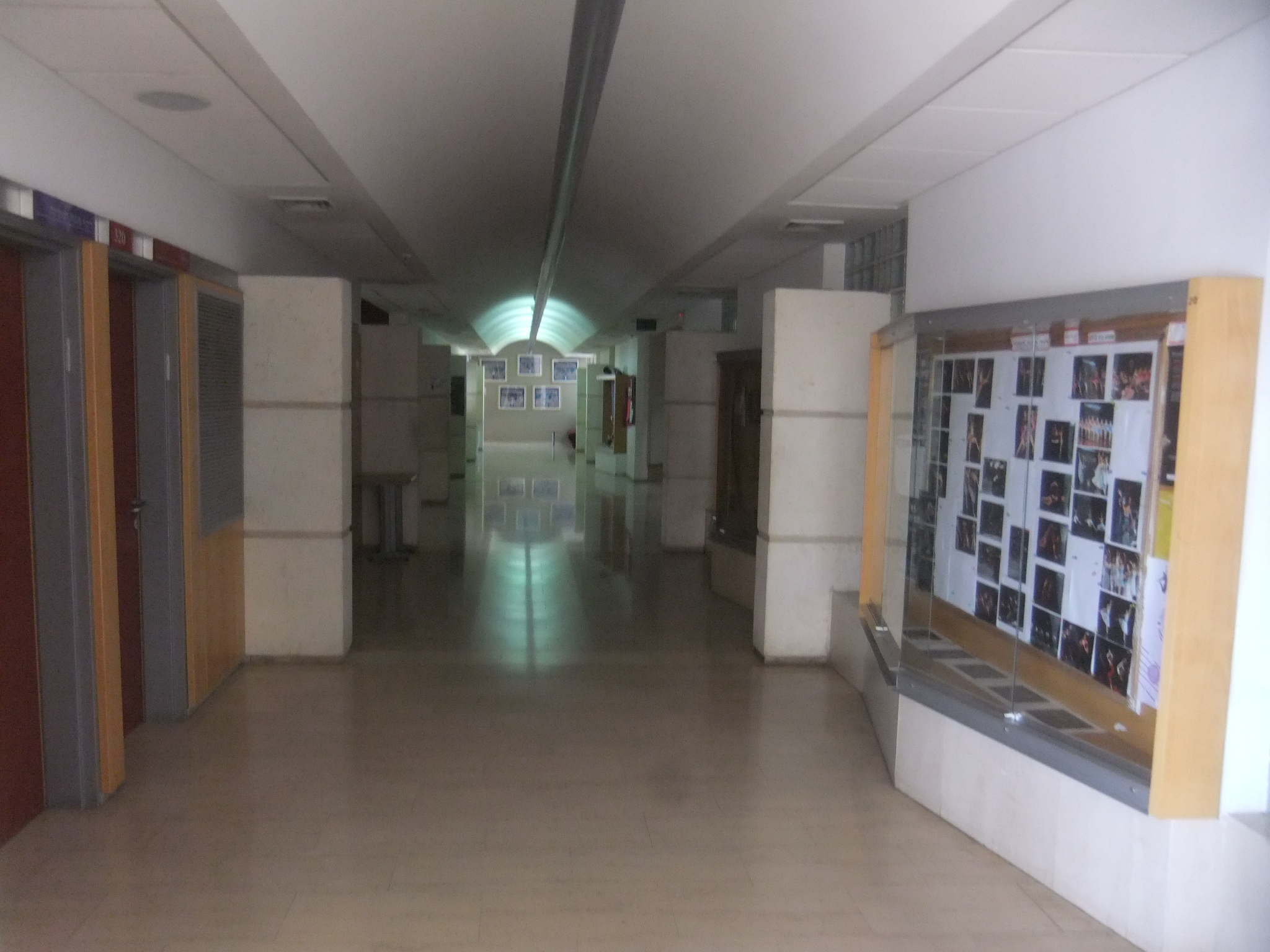 High school of Jerusalem Academy of Music and Dance